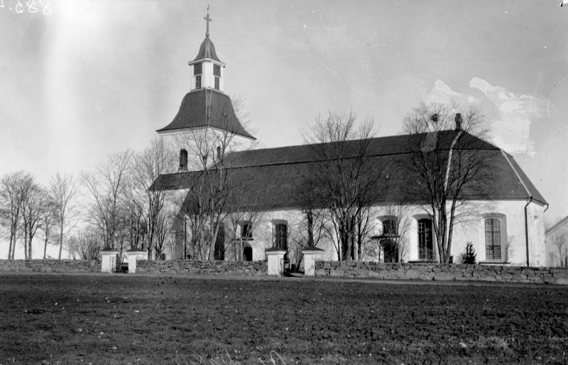 Ål church from the south-east